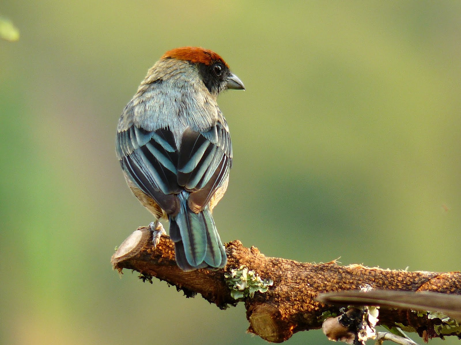 A Scrub Tanager in Manizales, Caldas, Colombia.